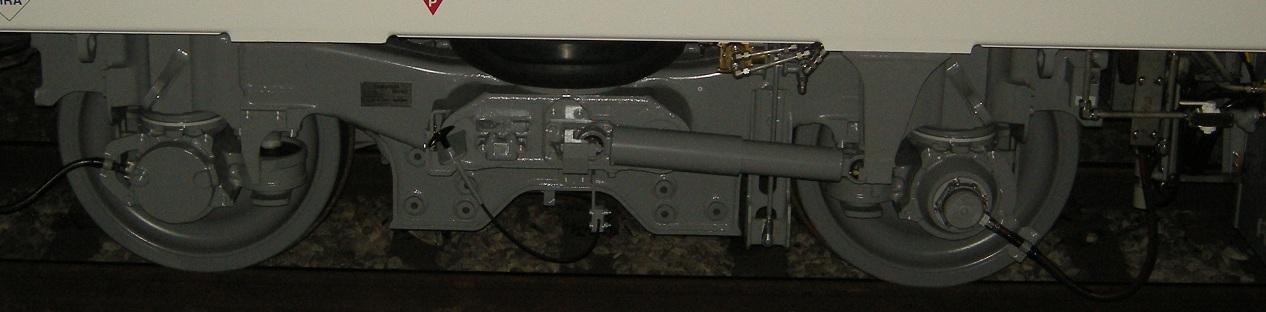 Type ND-742T bogie truck of Taiwan Railway TEMU2000 series.